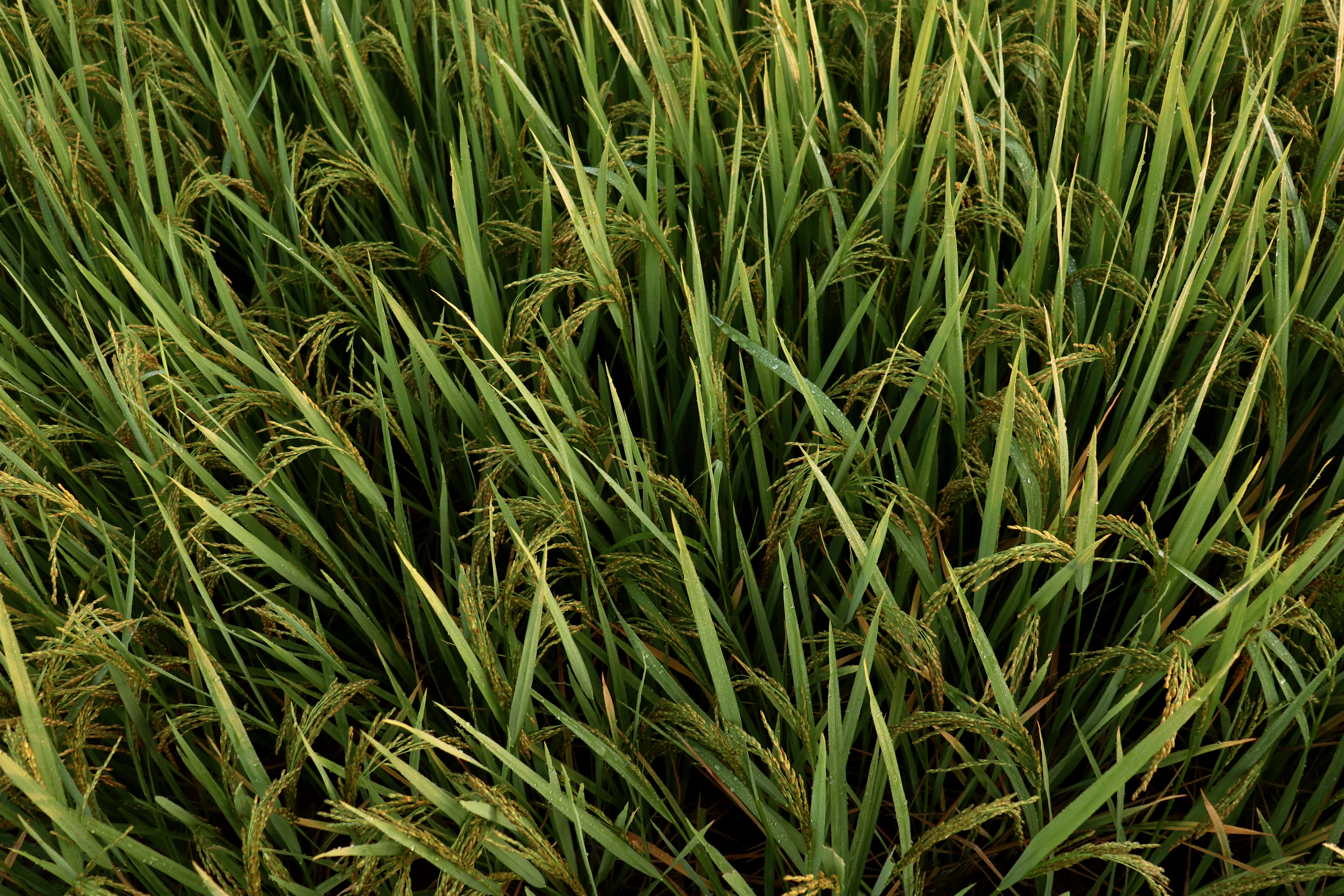 Paddy crop near Eluru in West Godavari. West Godavari is one of the largest exporter of Rice in Andhra Pradesh